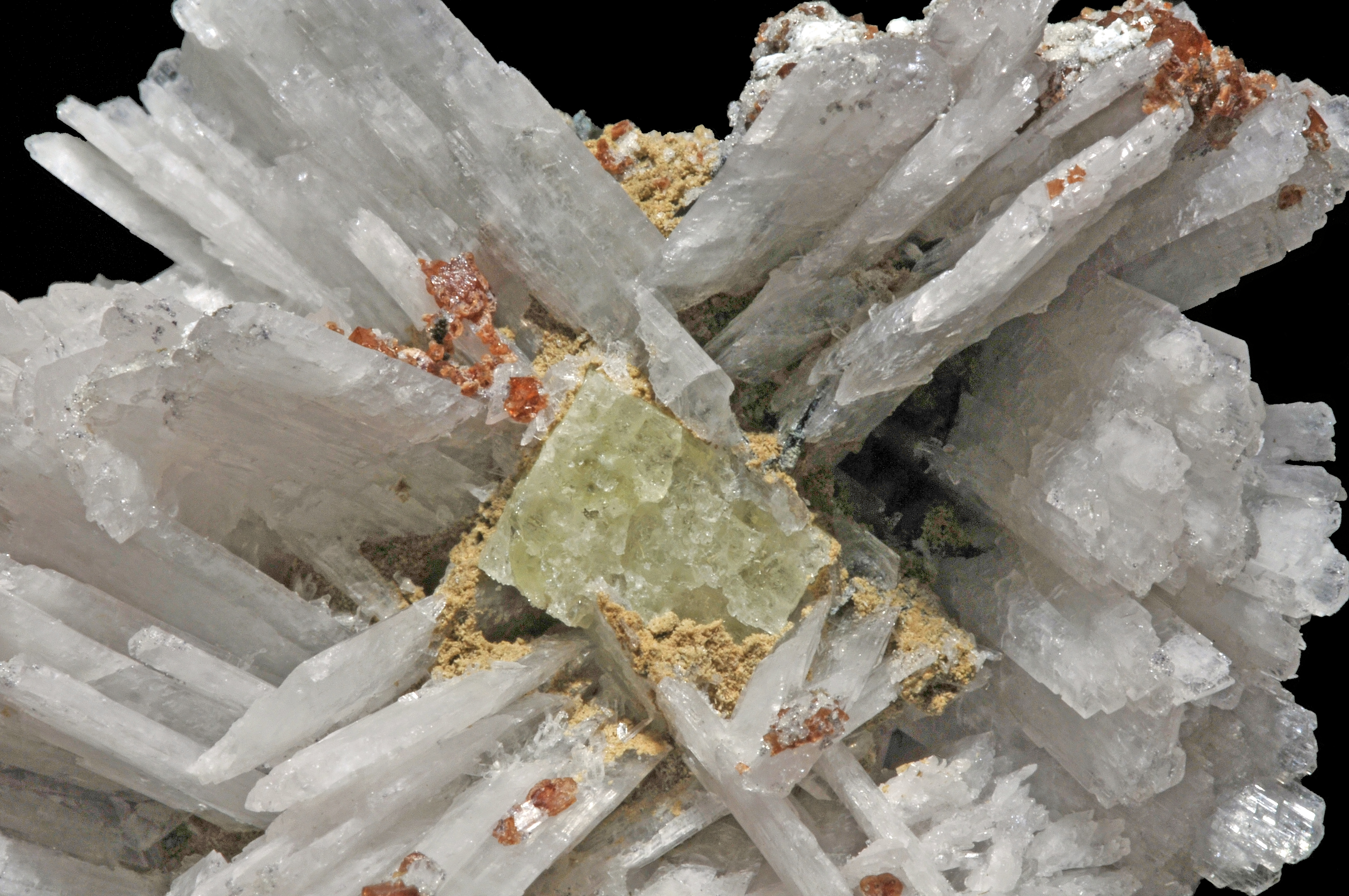 crystals of leucophanite, crystals of natrolite, crystals of rhodochrosite, crystals of aegirine : Mont Saint-Hilaire, La Vallée-du-Richelieu RCM, Montérégie, Québec, Canada